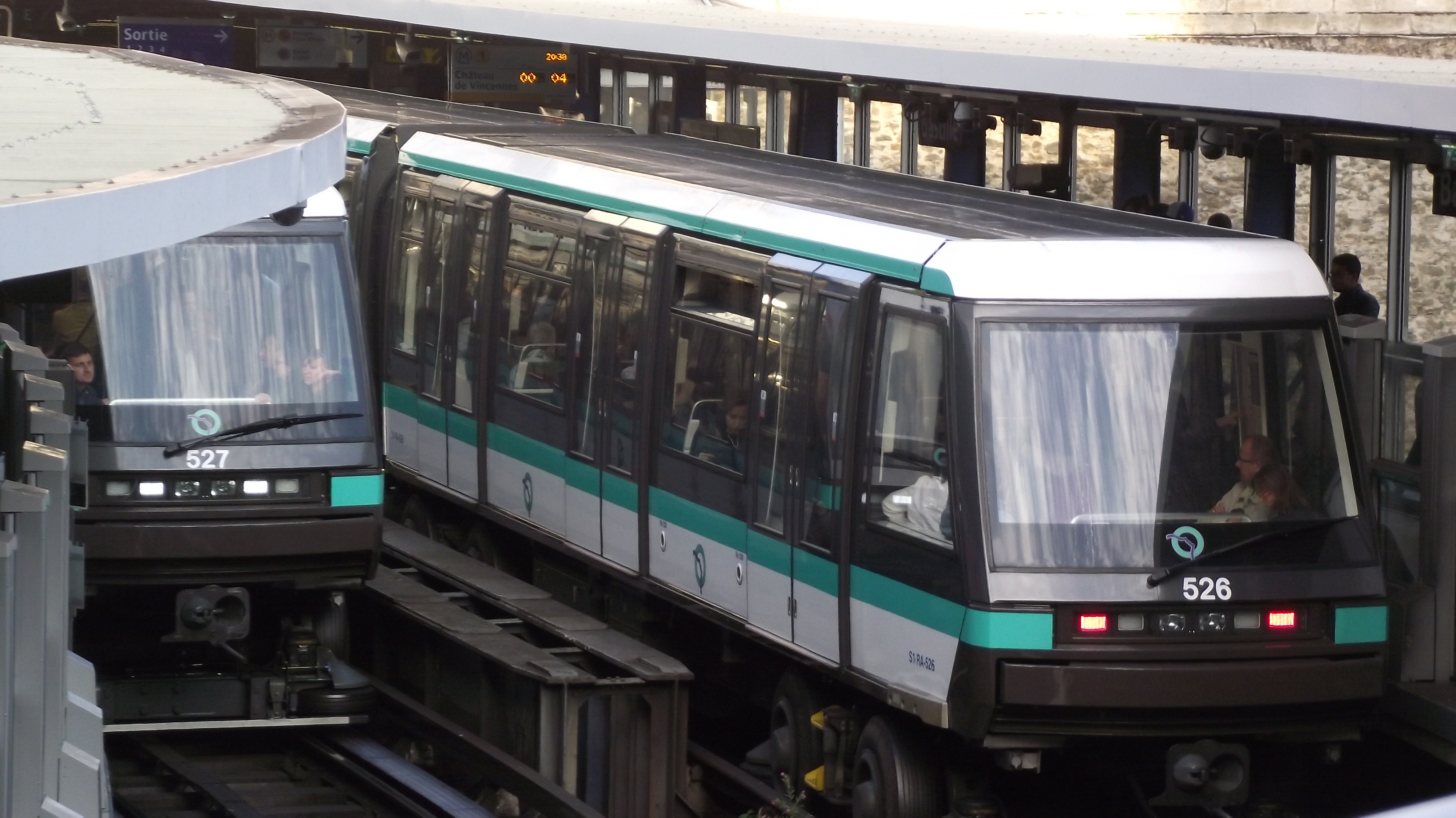 Automatic metro line 1 in Bastille